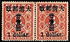 $1_pair